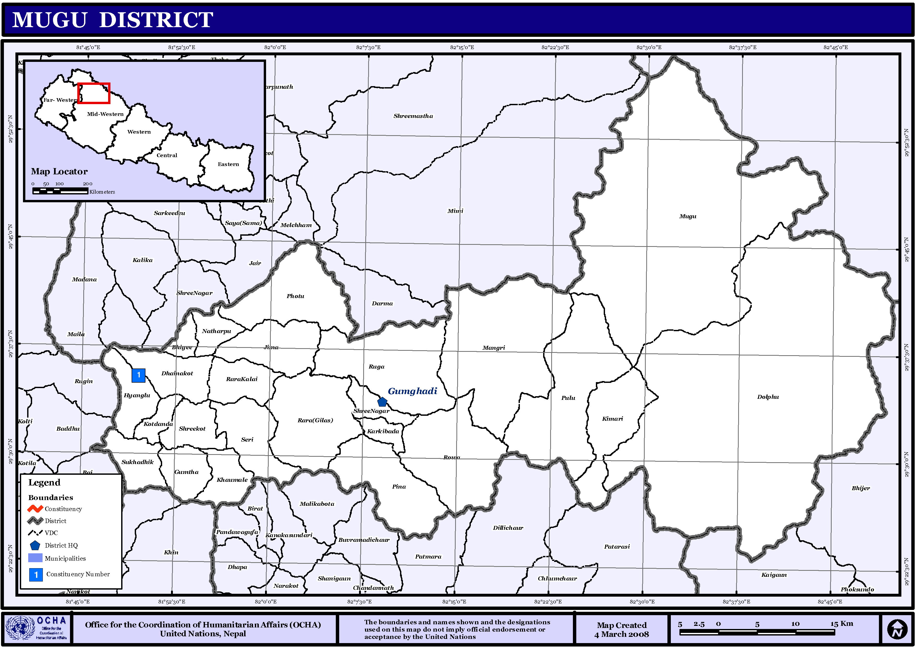 Map displaying Village Development Committees in Mugu District, Nepal